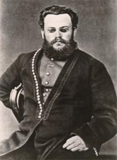 Carl Robert Jakobson